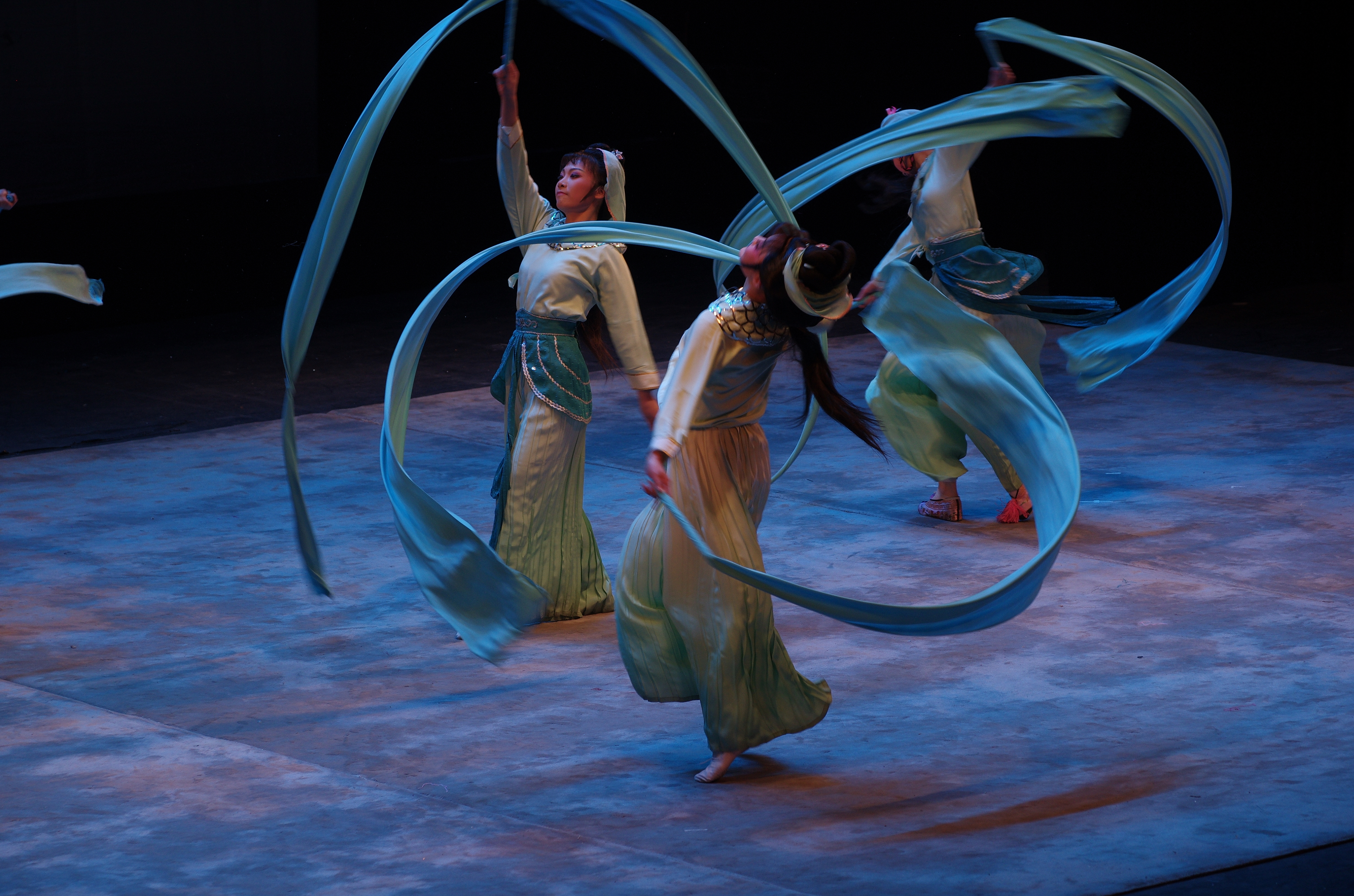 A Shaoxing opera performance of Yulan Ji in Tianchan Theatre, Shanghai, China. The actresses were students at Shanghai Theatre Academy.